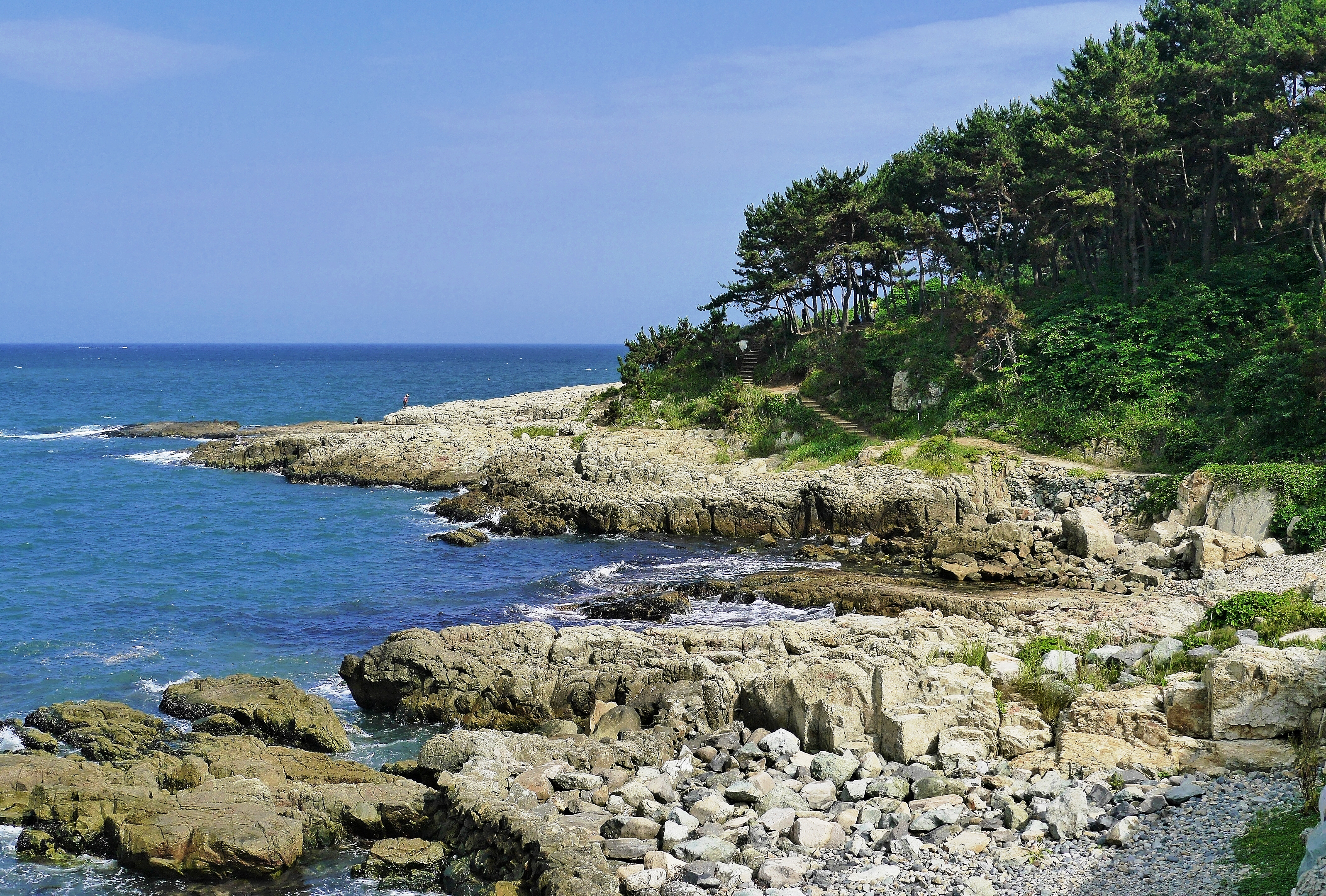 Igidae Trail in Busan, South Korea. Photograph from Flickr; author travel oriented; license of CC BY-SA 2.0. Edited from original photograph (lighting, cropping, etc.).